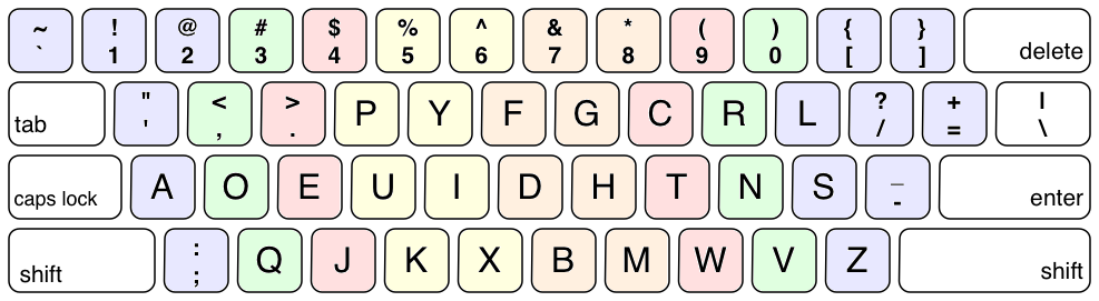 A diagram showing the English Dvorak keyboard layout in a style that matches common Apple and Macintosh keyboards